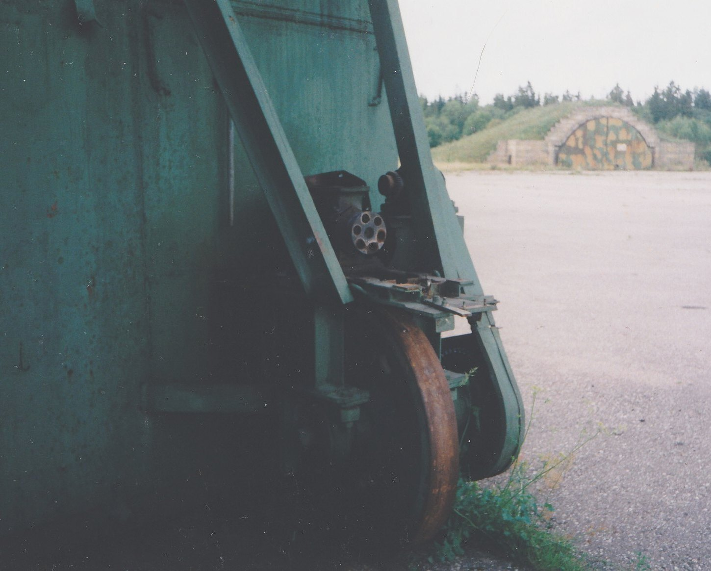 A mechanism of a metallic door for a military hangar in Tapa, Estonia